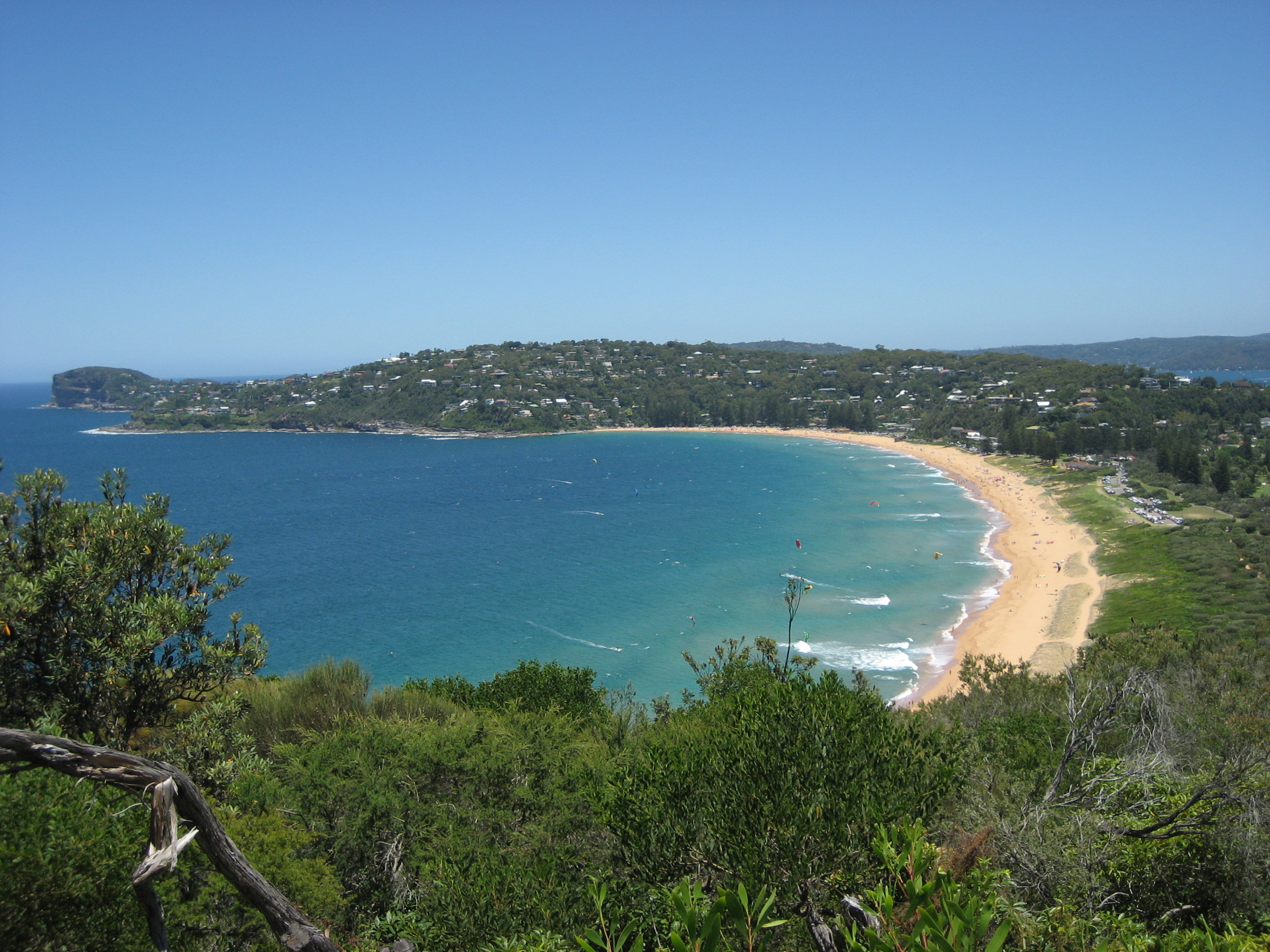 Suburb of Palm Beach